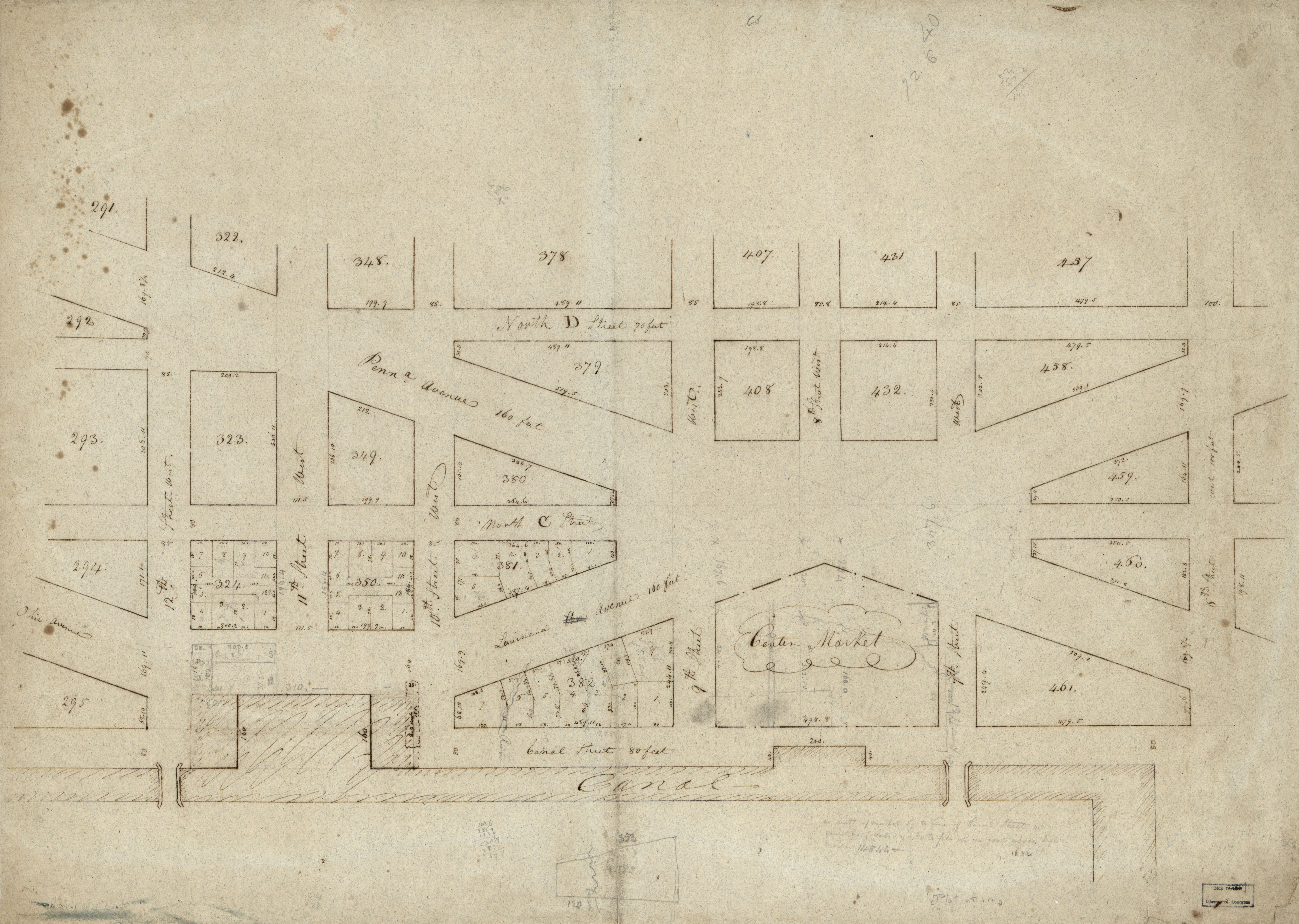 Covers area bounded by 12th, D, 6th streets N.W., and the Washington Canal. Shows lots, lot numbers, and dimensions only in 4 squares. Title devised by cataloger. Pen-and-ink and lead pencil. Stained and fold-lined. Includes computations and inset of Square 382. Available also through the Library of Congress Web site as a raster image. Vault DCP